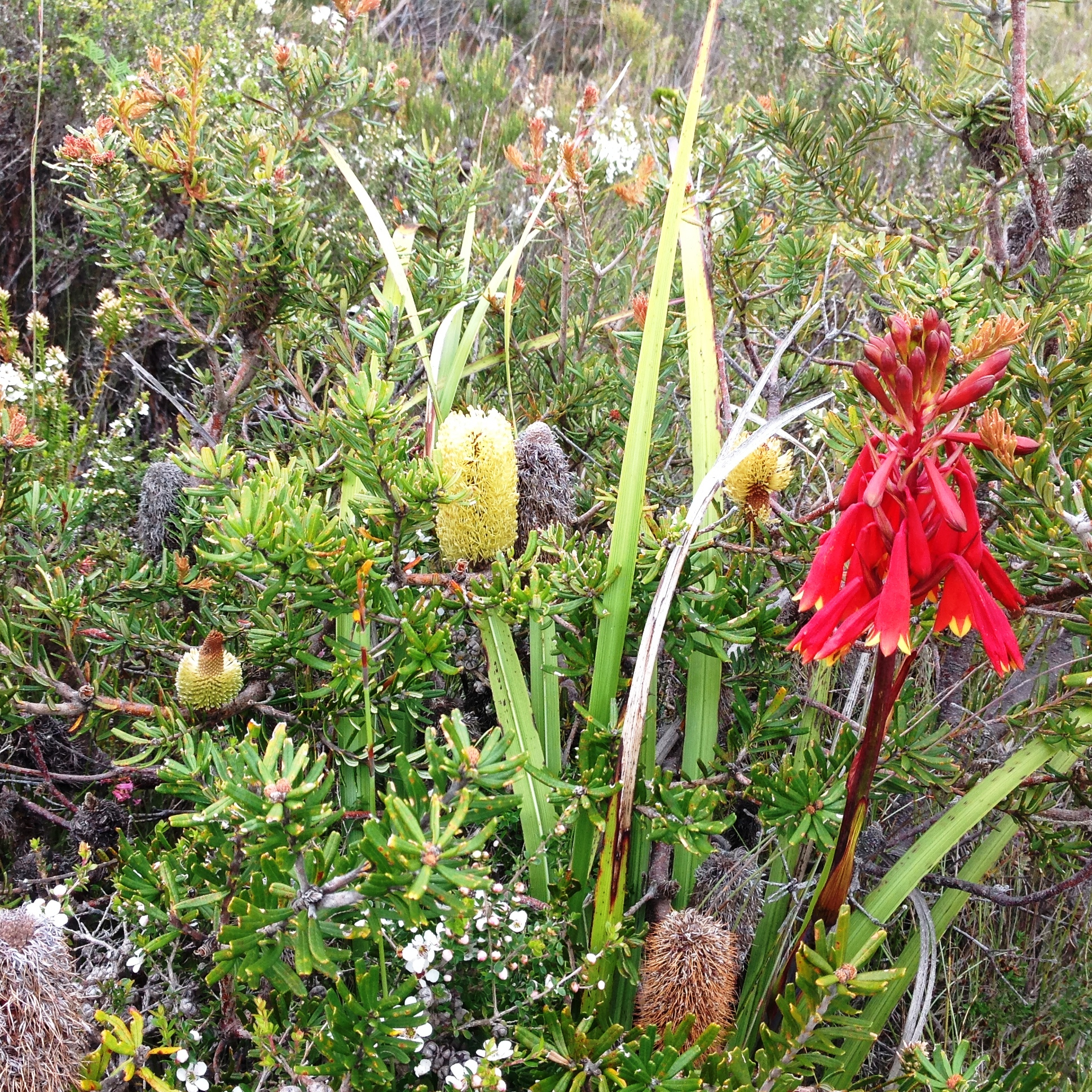 Banksia Marginata and Blandfordia Punicea, commonly known as Tasmanian Christmas Bell